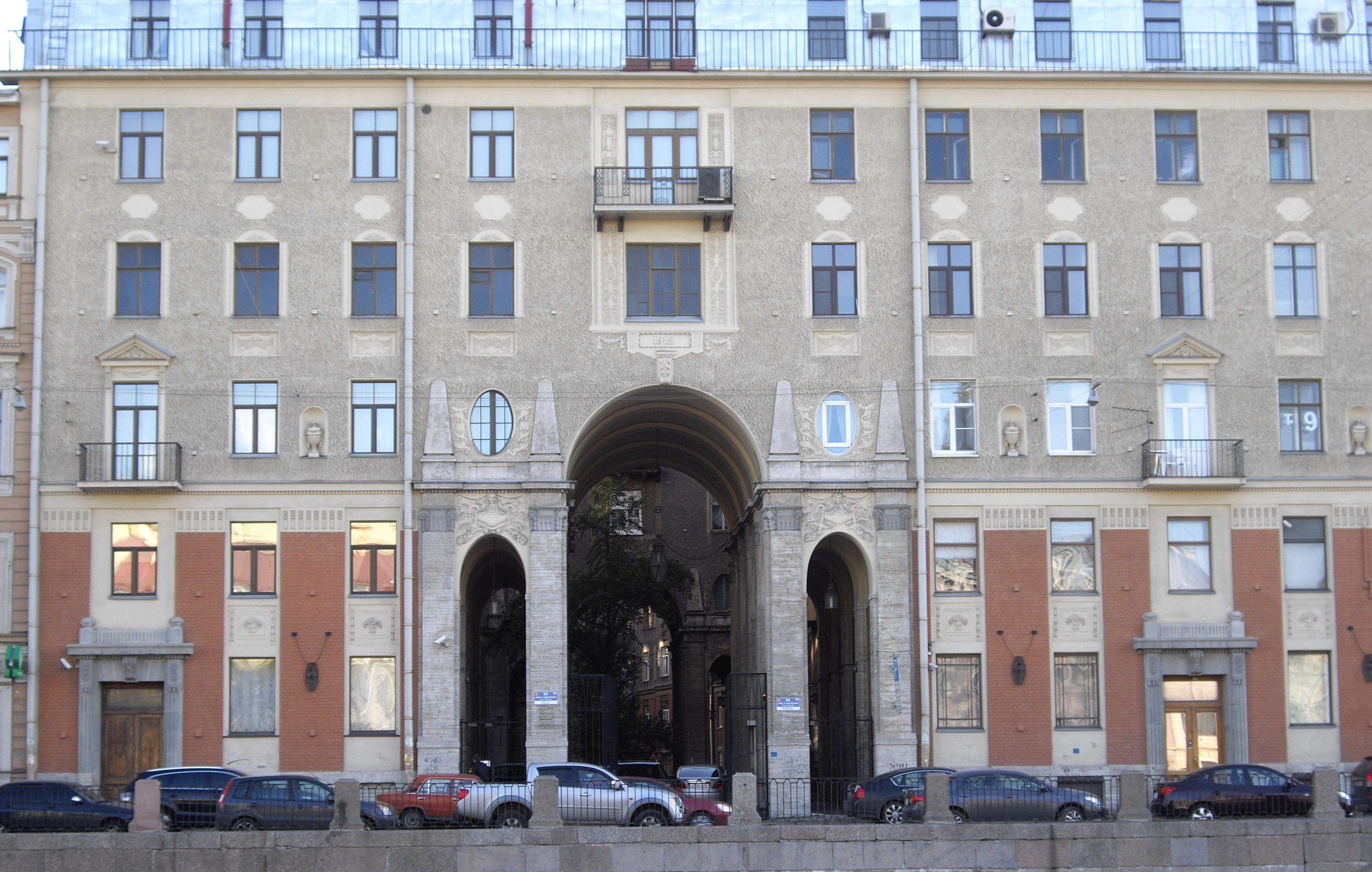 "Tolstovsky dom" (House of M.P.Tolstoy): Fontanka, 52-54, Saint-Petersburg, Russia. Architect Fedor Lidval, 1910-1912.